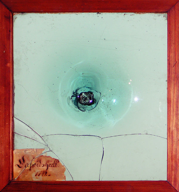 Among the oldest known production of glass from Kosta, Småland, Sweden is this window glass from 1742. In the middle is the mark after the glass blowers pipe